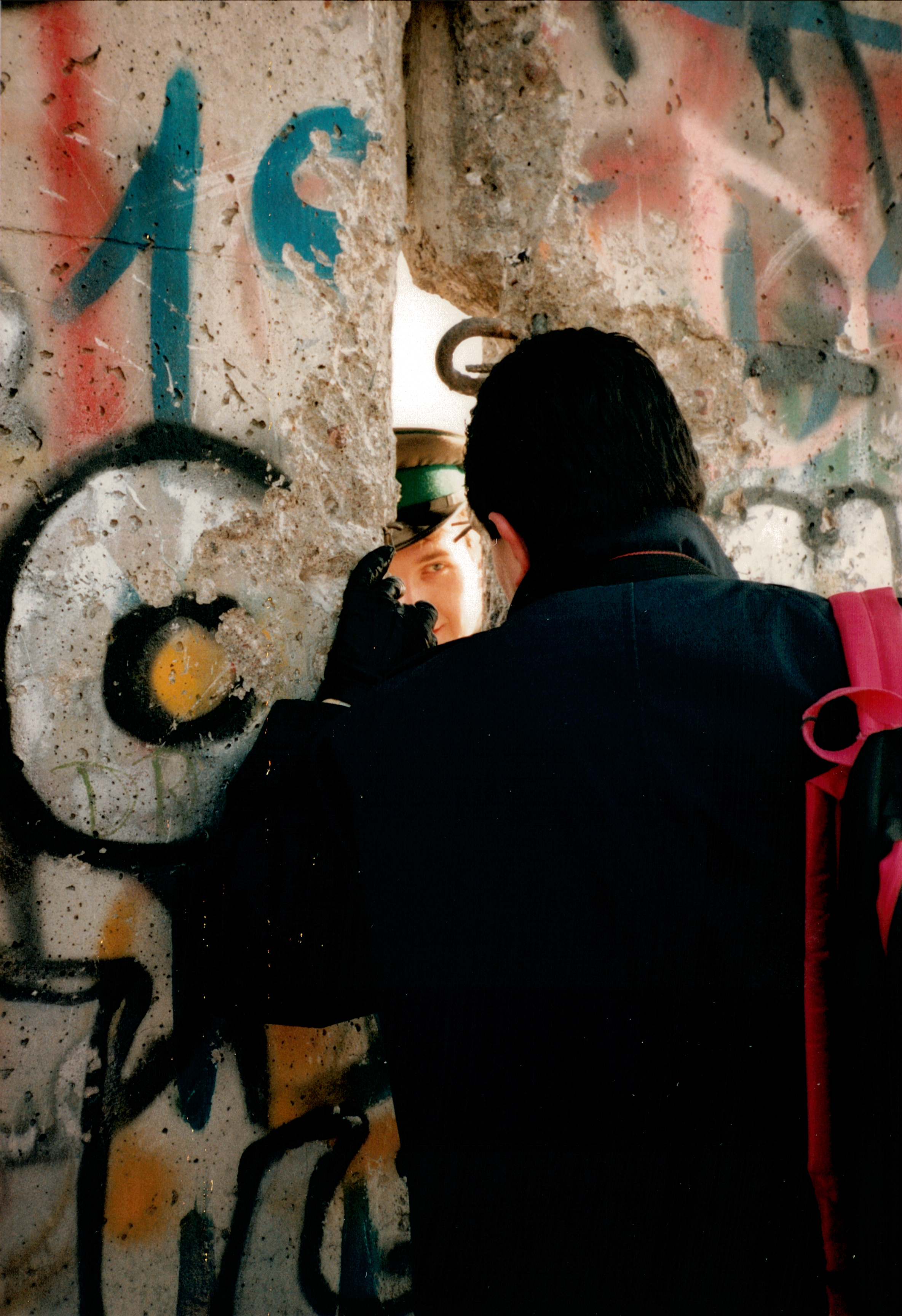 Fall of the Berlin Wall, November 1989. An Eastern guard speaks to a Westerner through a broken seam in the wall. Both were smiling, representing the jubilant spirit of the day.